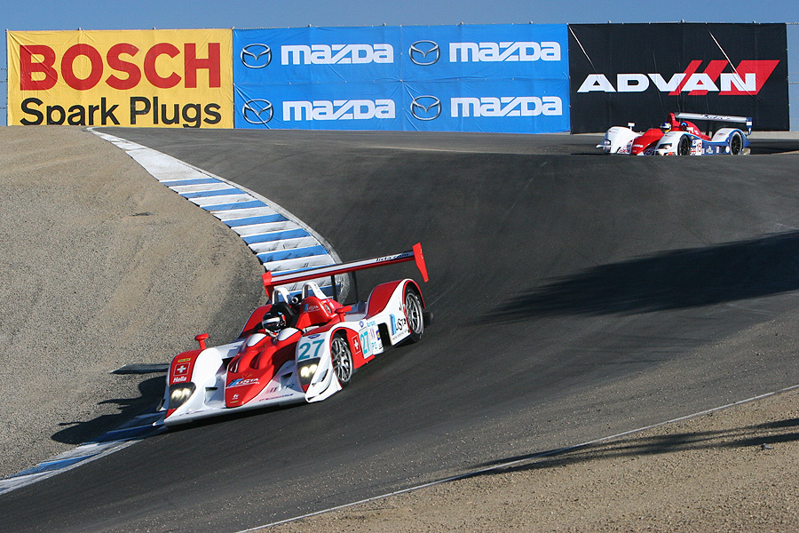 Horag's Lola-Judd leading the Zytek